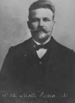 Matti Turkia